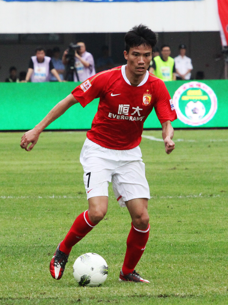 Chinese footballer Feng Junyan played for Guangzhou Evergrande against Liaoning Whowin in the 2012 Chinese Super League.